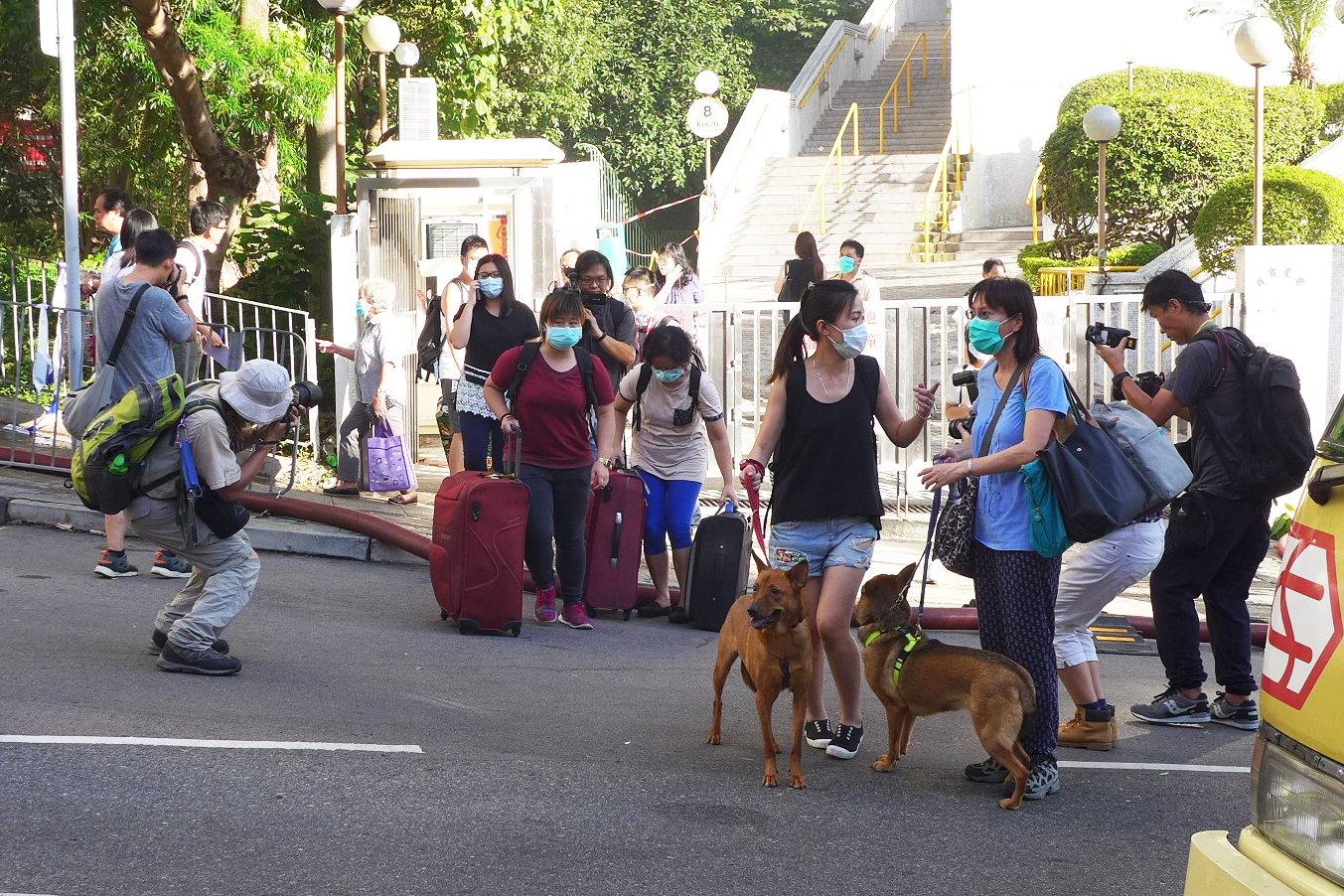 Residence choose to Leave